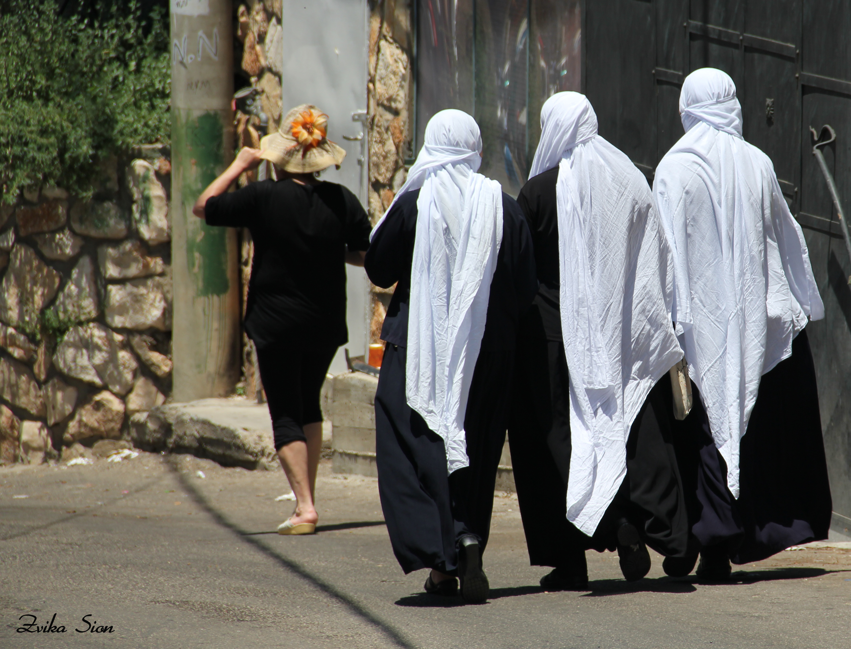 Pkiin Vilage, Cities in Israel